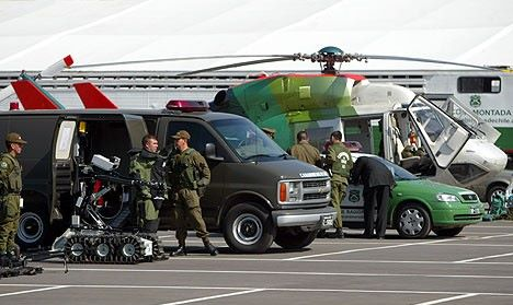 Various squads from Carabineros de Chile. From nearest to furthest: "Grupo de Operaciones Policiales Especiales" van and bomb-defusing robot, "radio patrulla", a MBB/Kawasaki BK 117 helicopter and a trailer for the Mounted Group operations